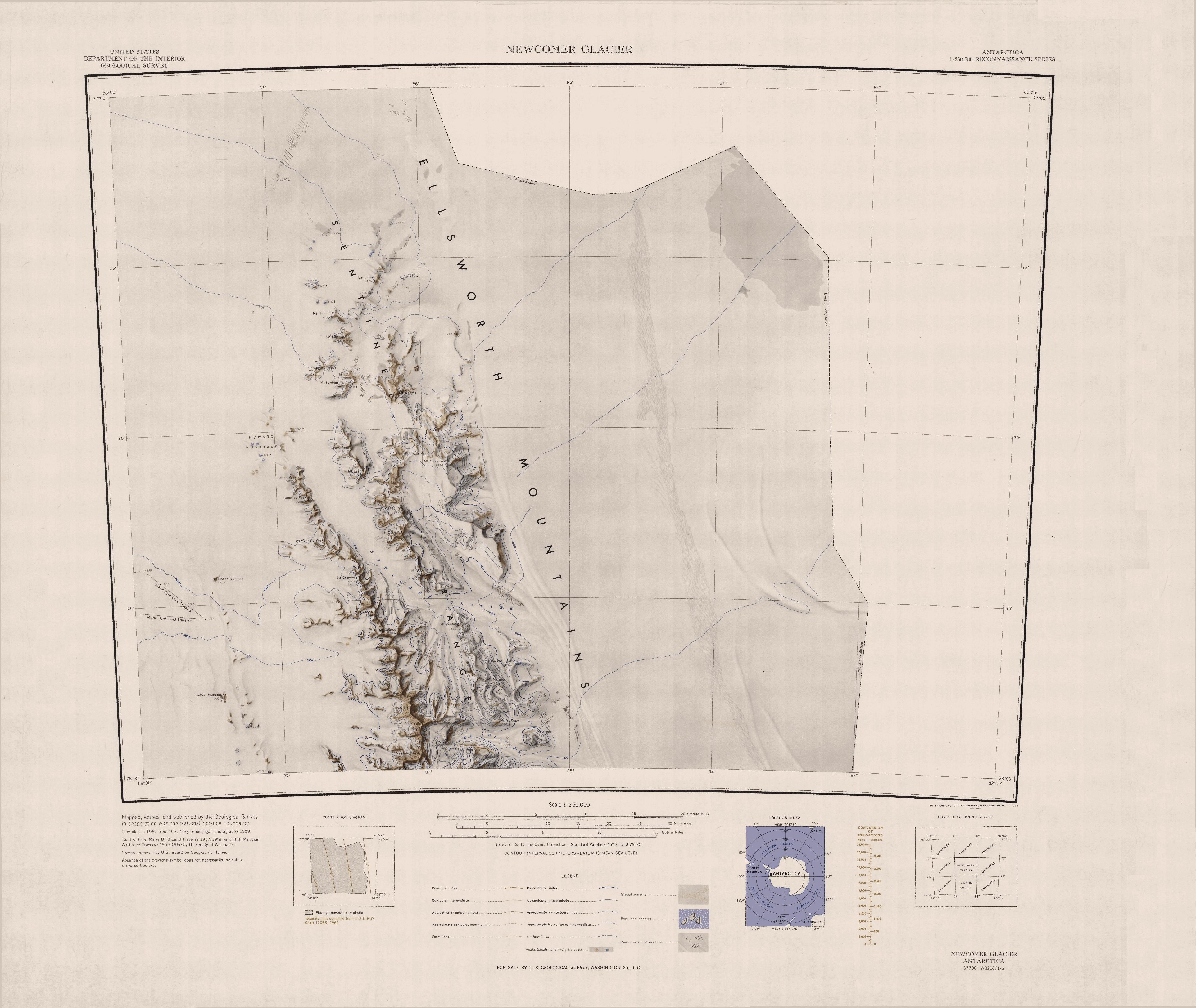 Map of Antarctica by the United States Antarctic Resource Center of the US Geological Survey.